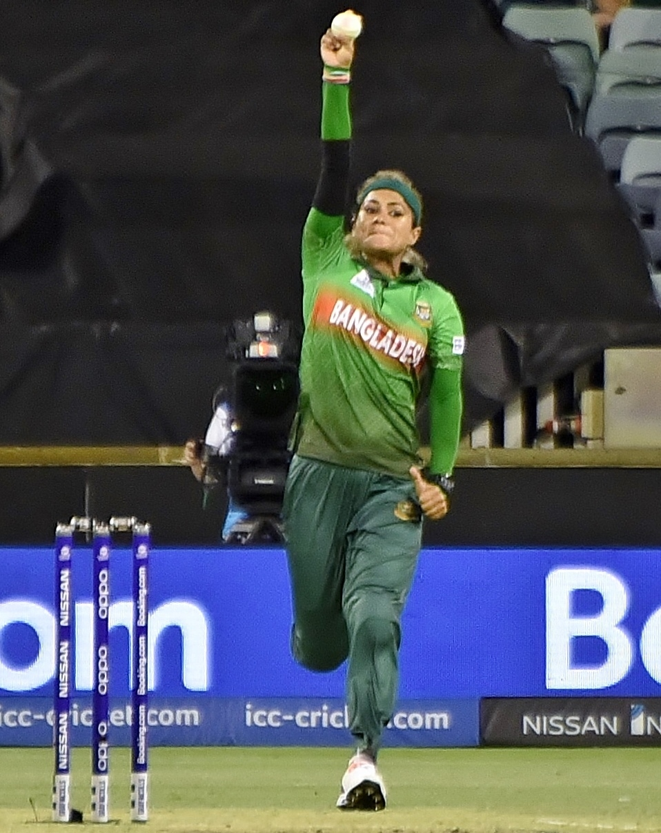 Jahanara Alam bowling for Bangladesh against India during their 2020 ICC Women's T20 World Cup match at the WACA Ground in Perth, Australia